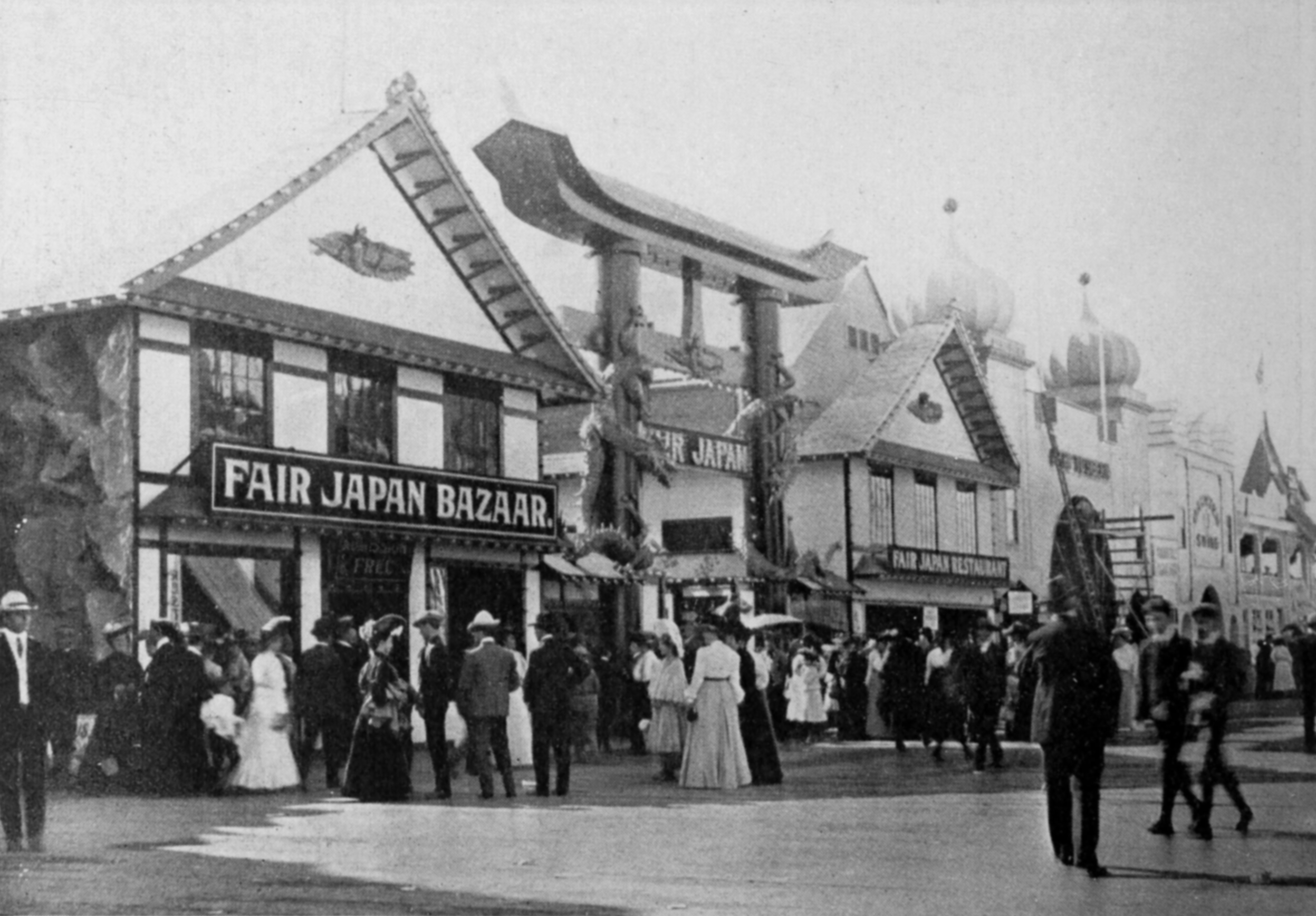 "Fair Japan is always attractive and entertaining, with its tea drinking booths, its Geisha girls and Japanese theater. The bazaar also attracts the purchasers of souvenirs" (original caption)